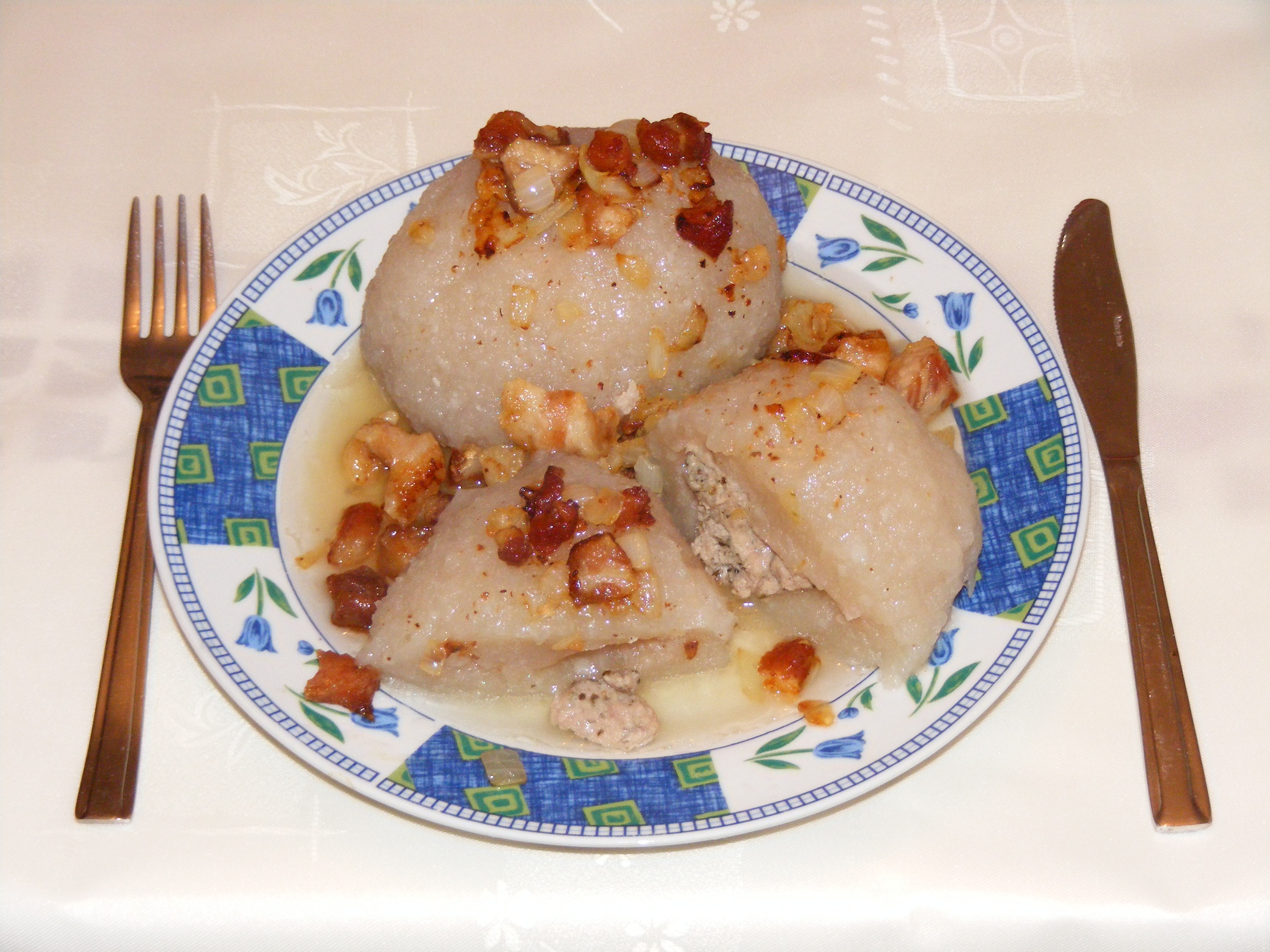 Traditional dish of Polish-Lithuanian borderland - home-made kartacze.